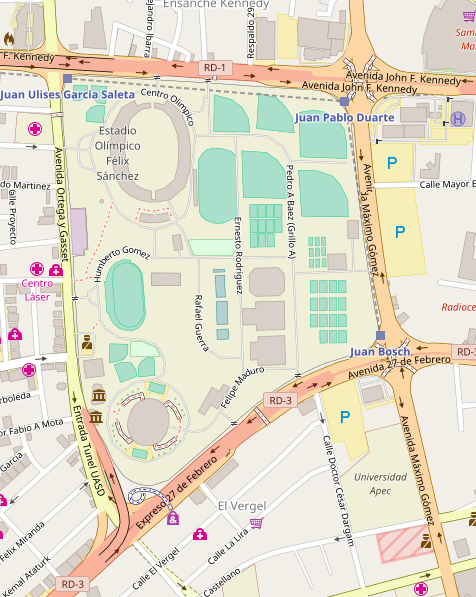 Also the location of the Association football in Santo Domingo, Dominican Republic